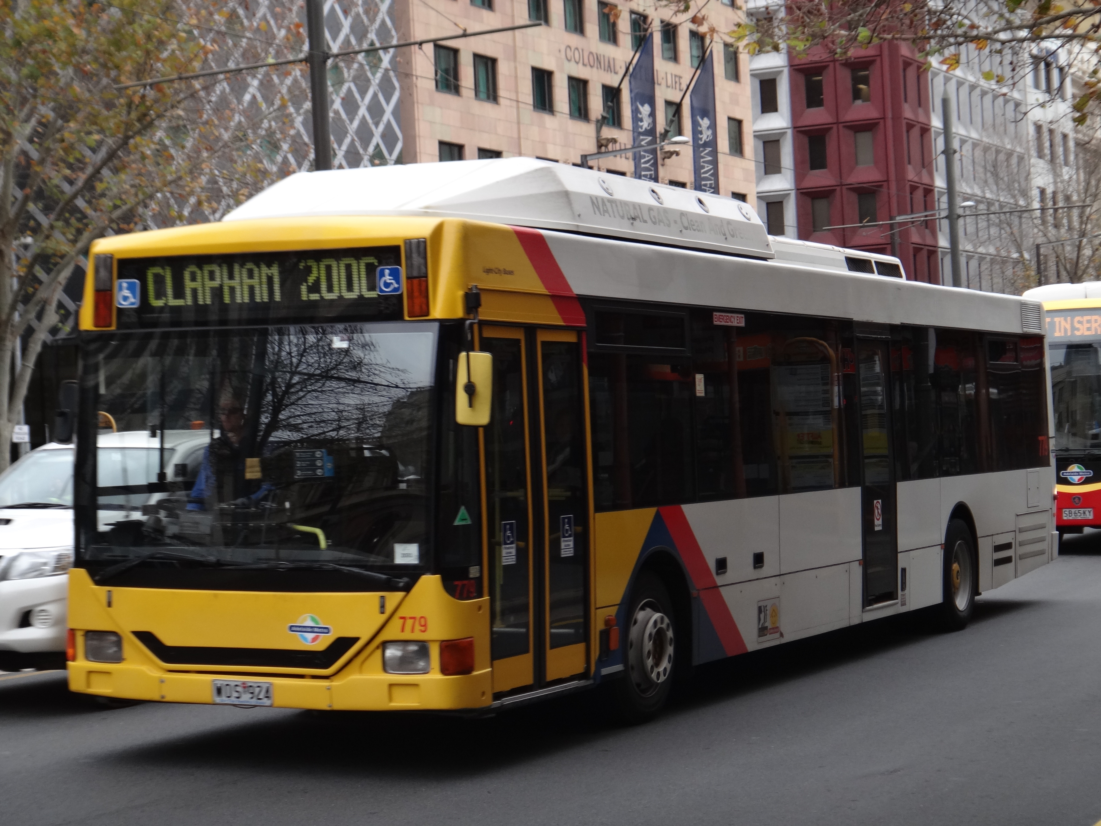 Torrens Transit Australian Bus Manufacturing 'CB62A' bodied MAN NL232 CNG